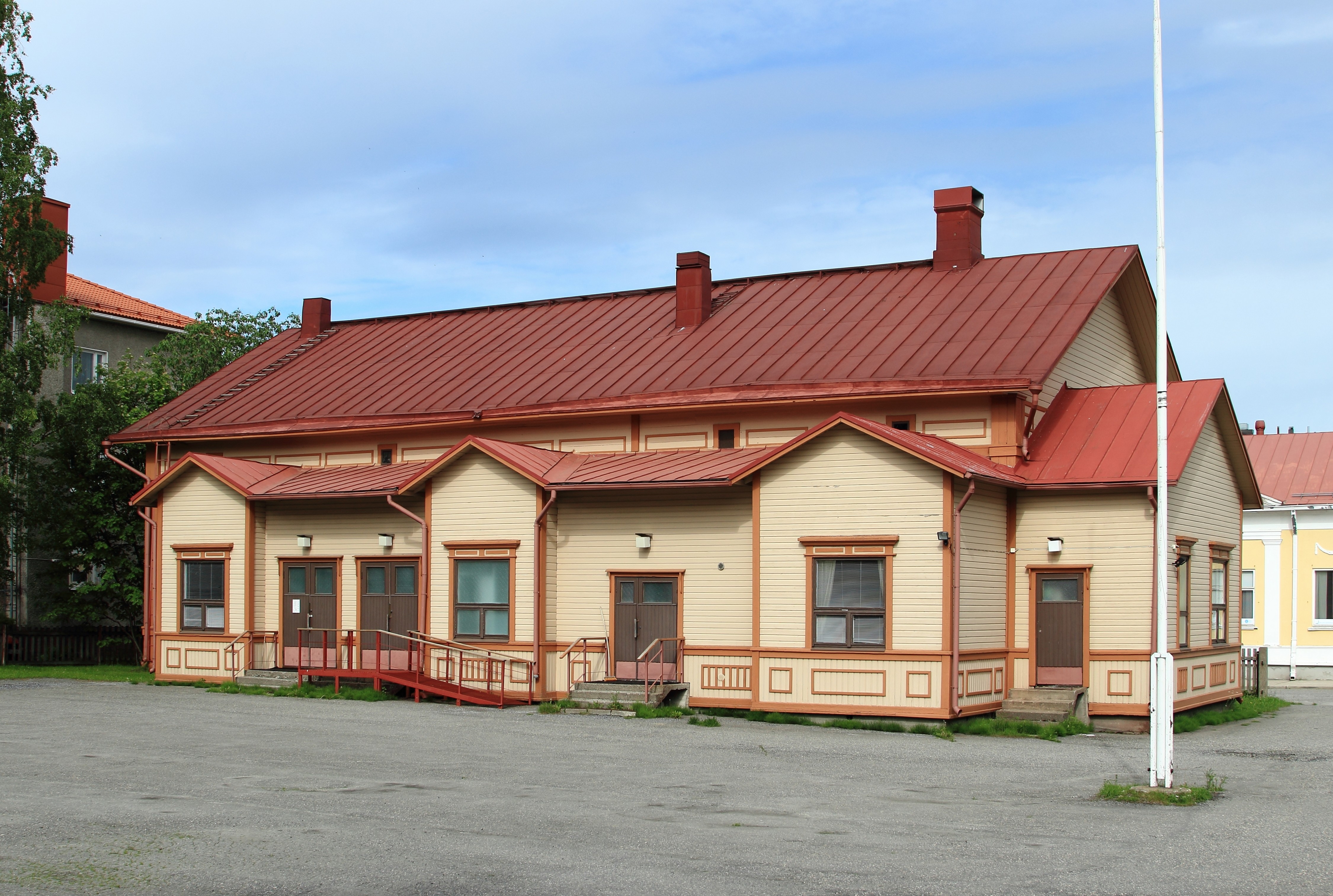 The laestadian meetinghouse of Kemi on the Sauvosaarenkatu street has been built in 1890.